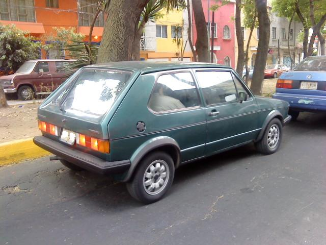 Volkswagen Caribe GT 1987 mexican specification